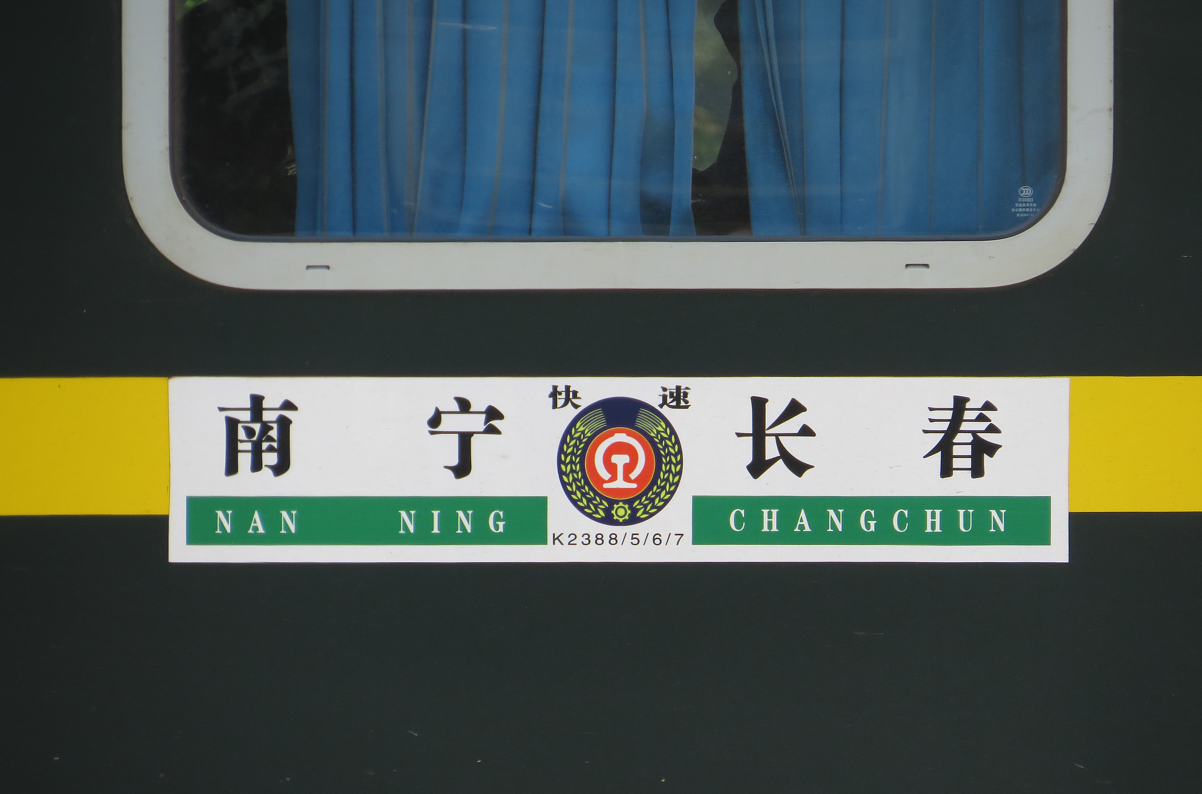 Changchun to Nanning.